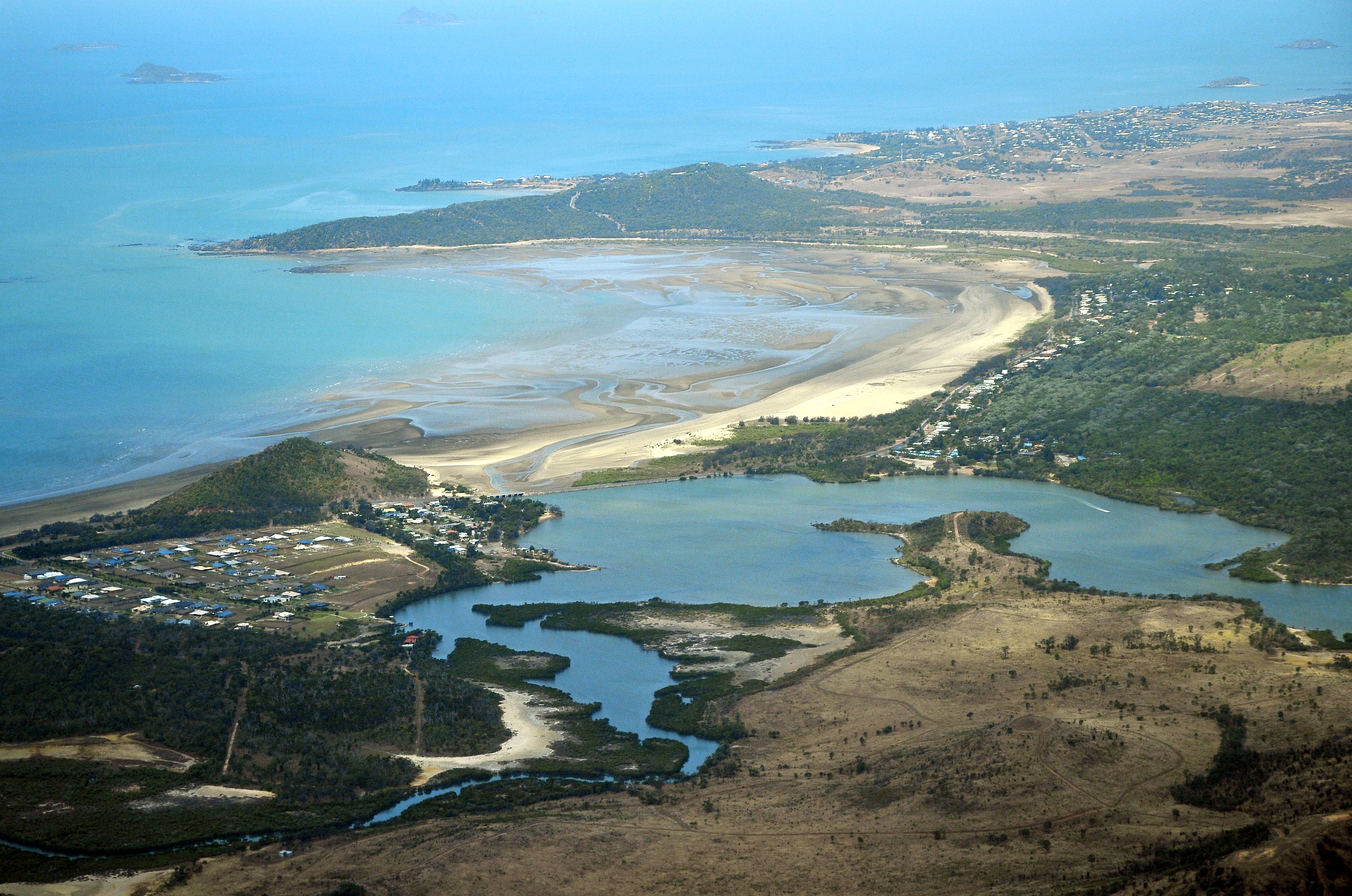 Aerial view of Causeway Lake, Kinka Beach and Rita Mada Point. Queensland, Australia